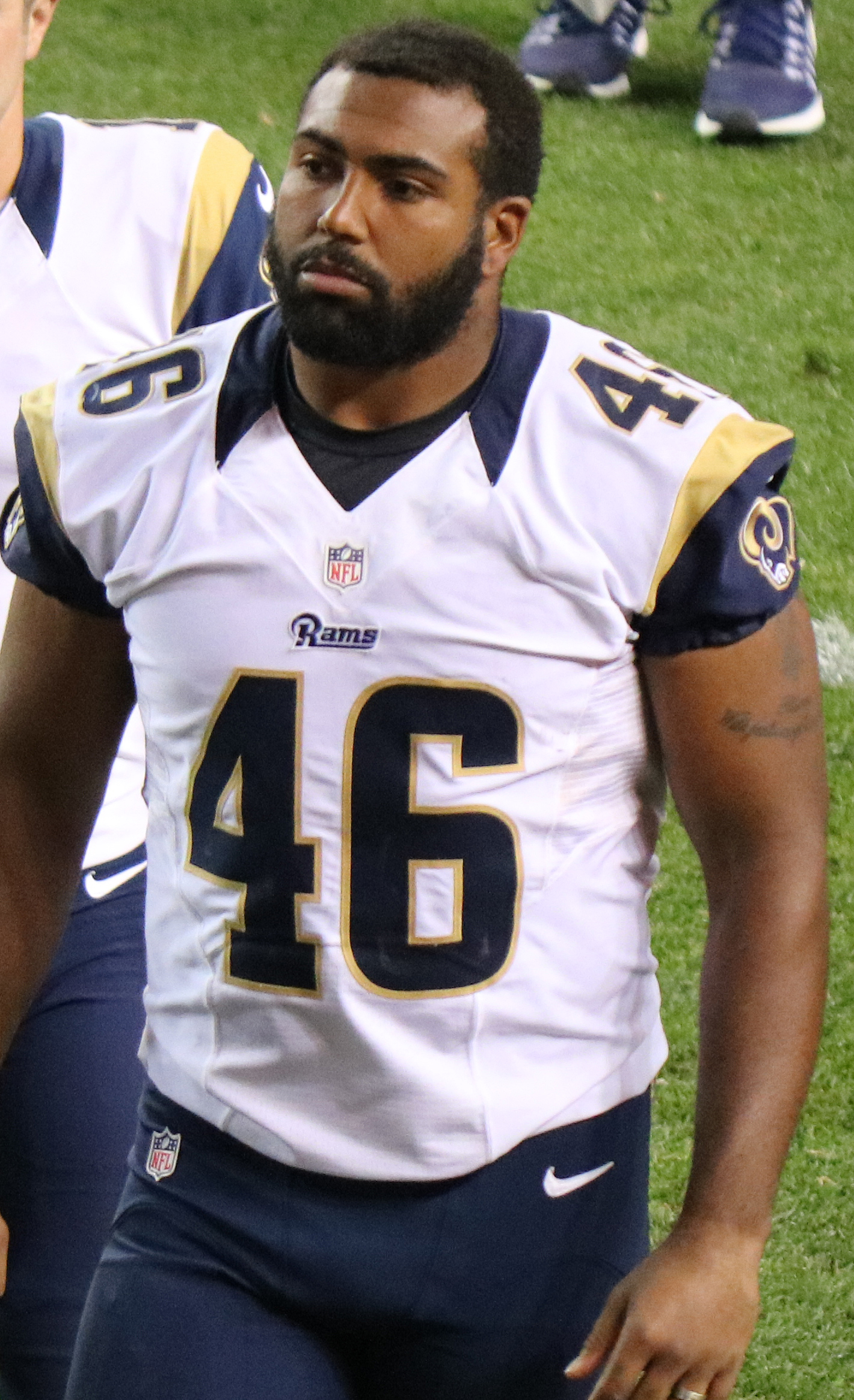 Cory Harkey, a player on the National Football League.